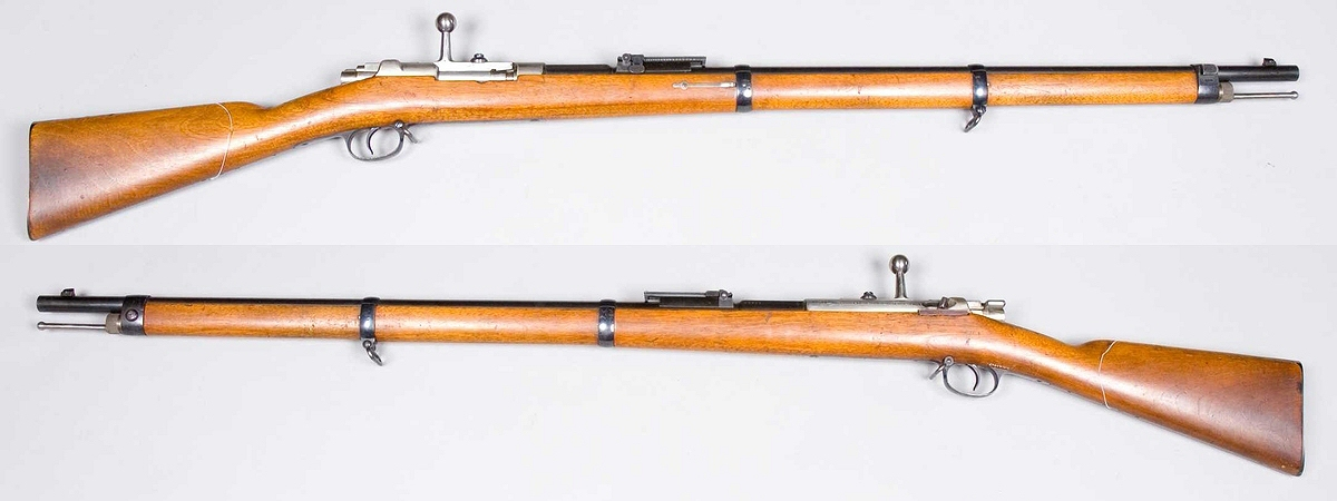 Infanteriegewehr m/1871-84 Mauser. Caliber 10.95 mm. From the collections of Armémuseum (Swedish Army Museum), Stockholm.